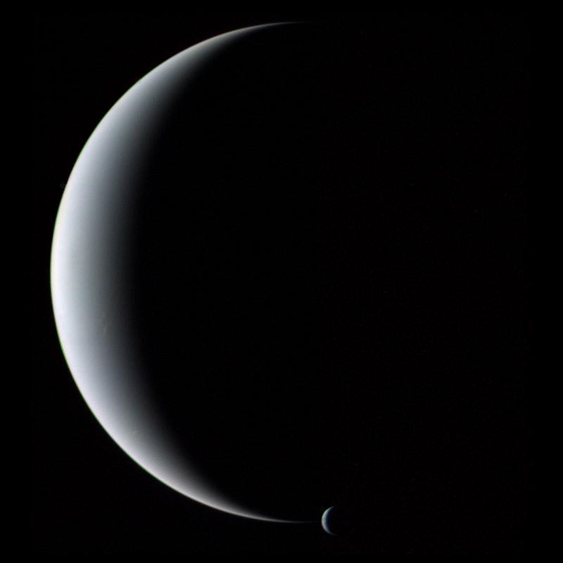 Voyager 2's parting look back at the Neptune system shows a beautiful dual-crescent view of Neptune and its largest moon Triton.